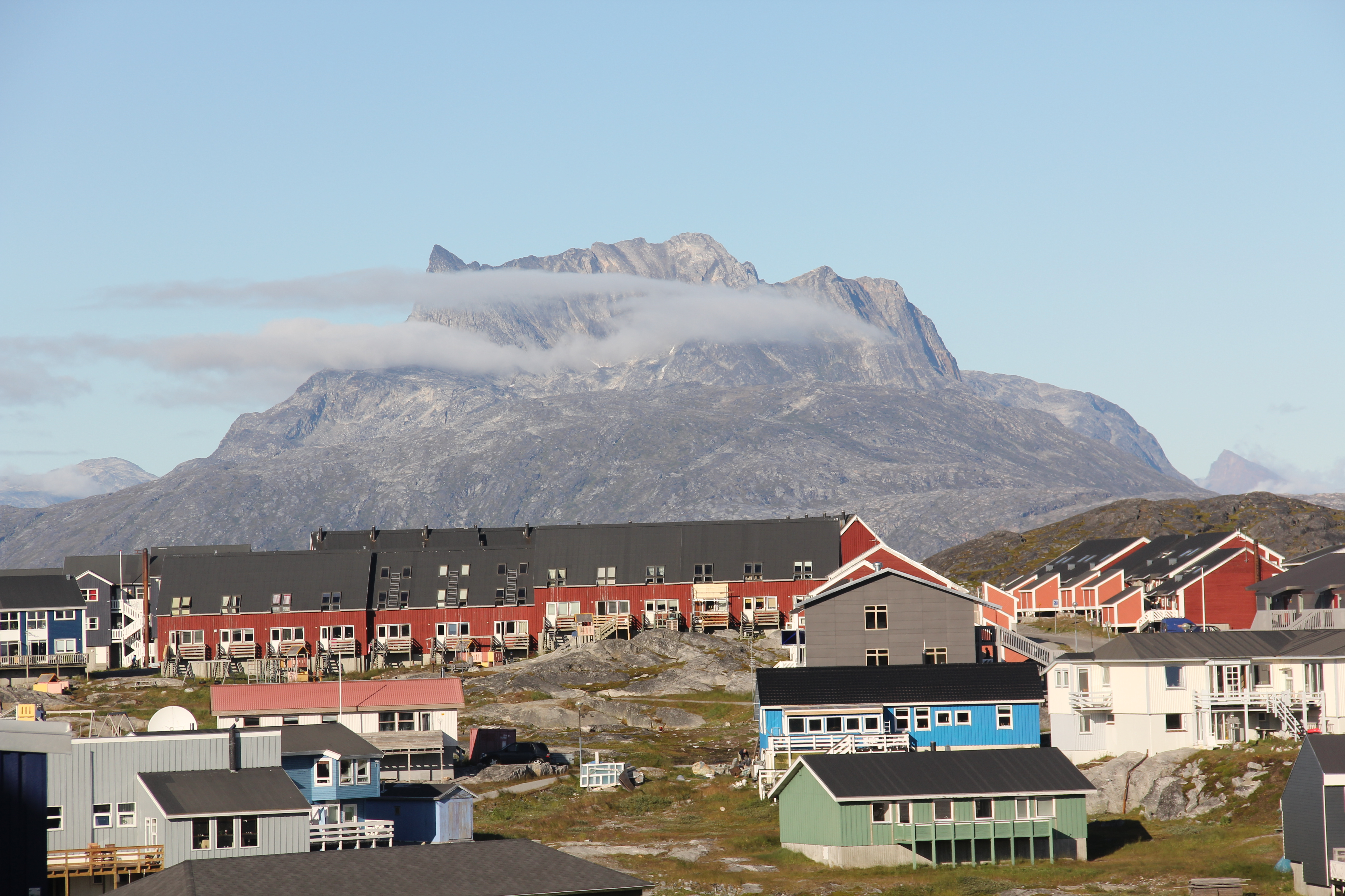 Sermitsiaq viewed from Nuuk